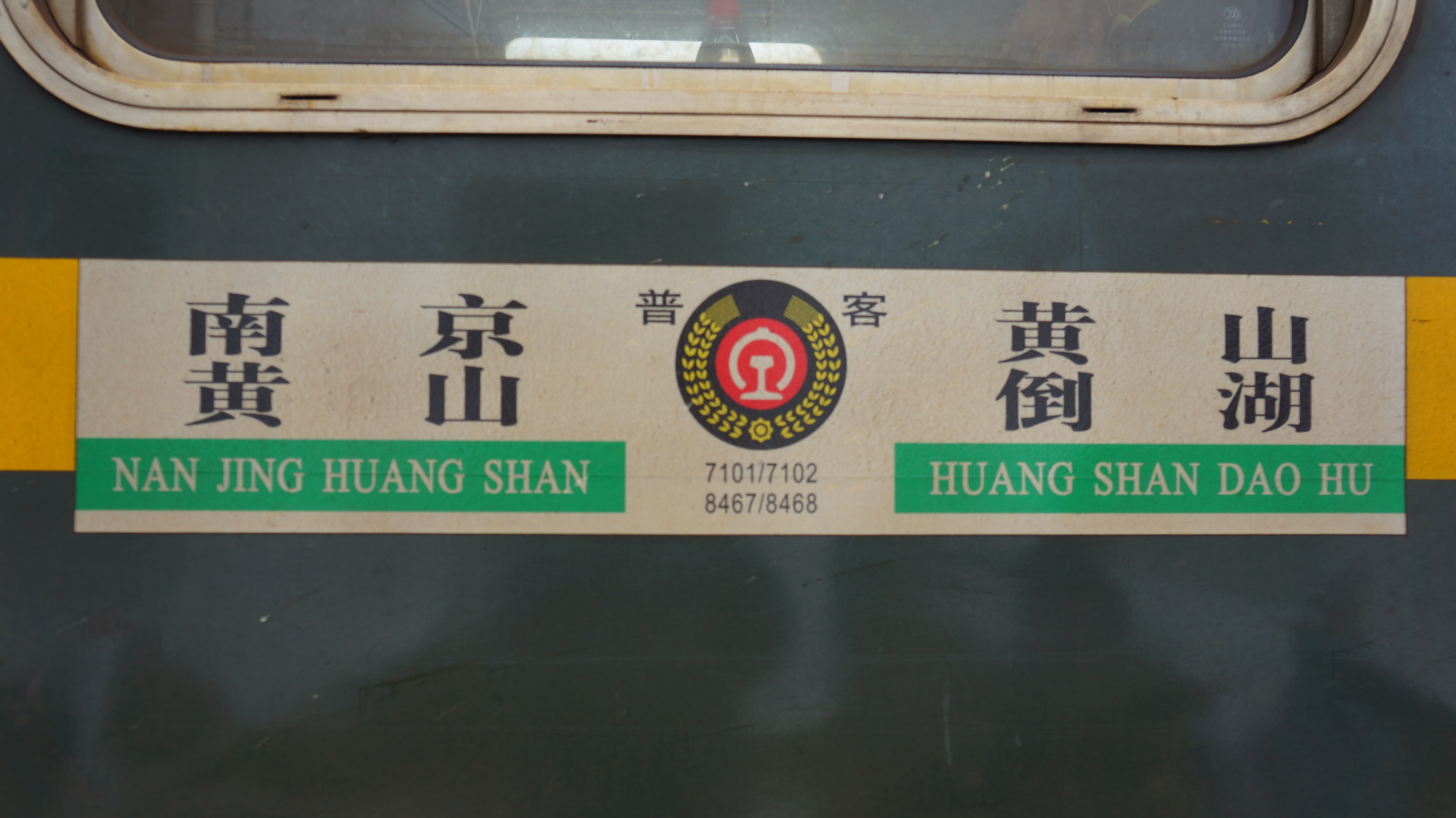 7101/2 Nanjing-Huangshan-Daohu Board